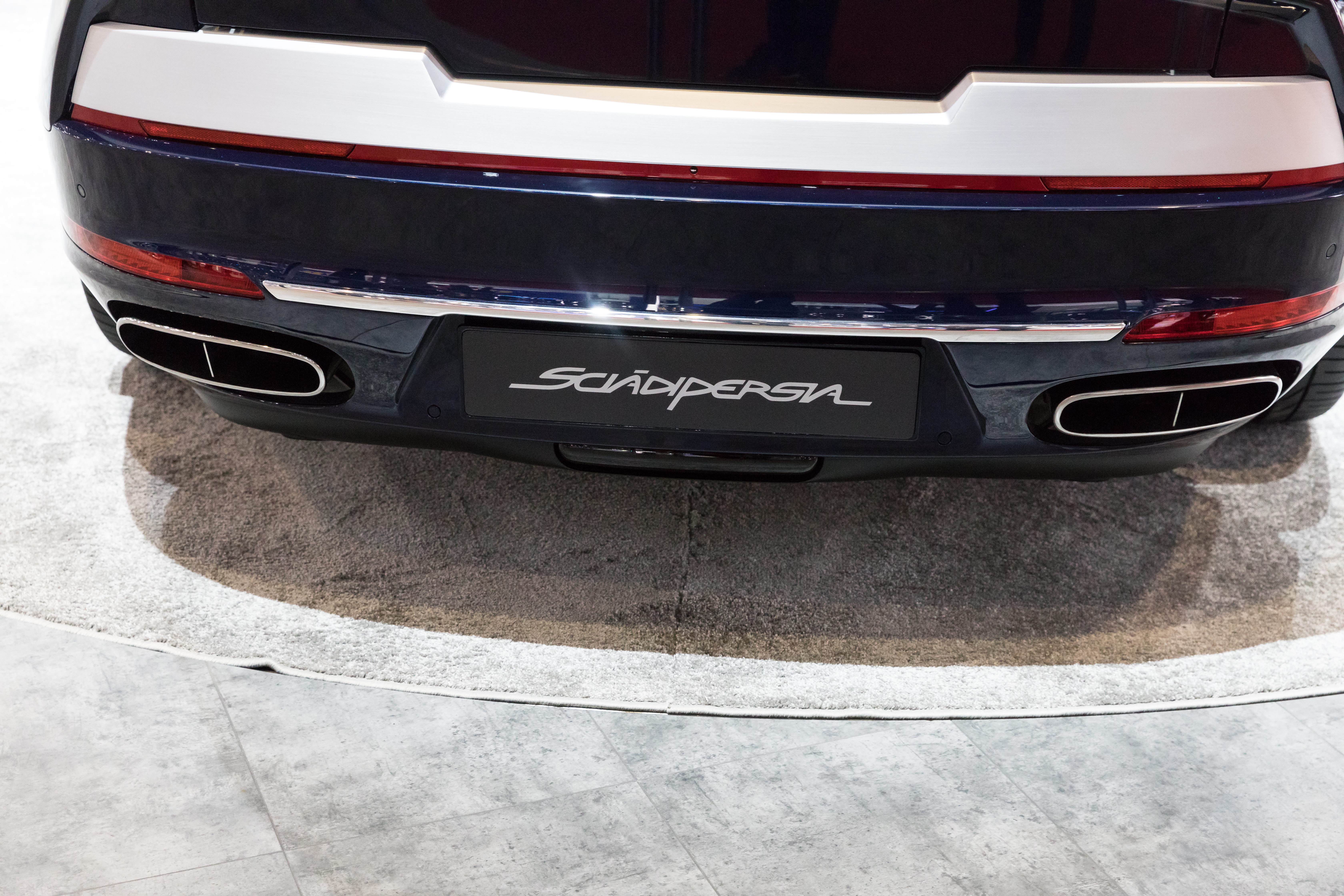 Geneva International Motor Show 2018, Touring Superleggera Sciàdipersia